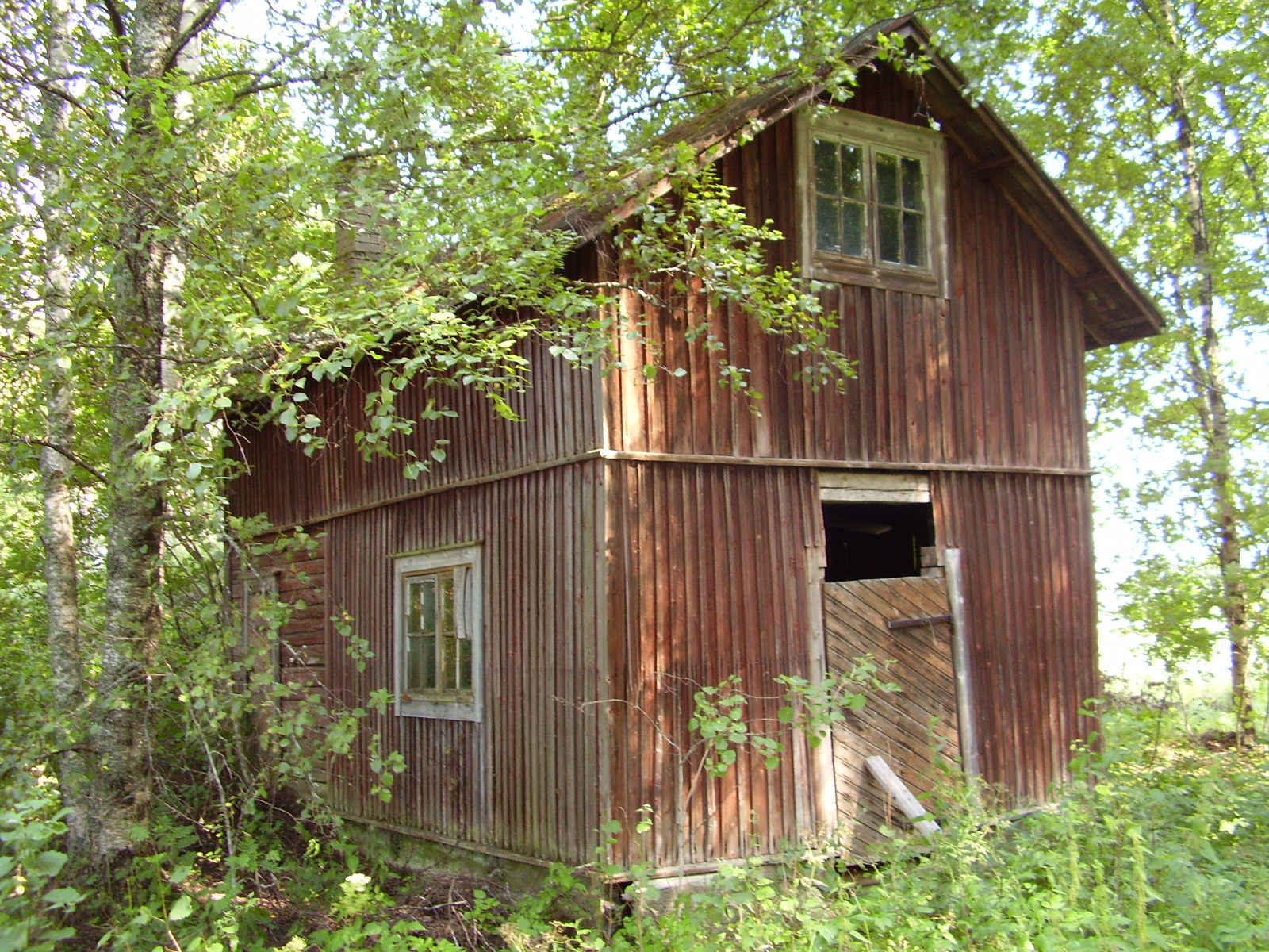 Old drying barn.